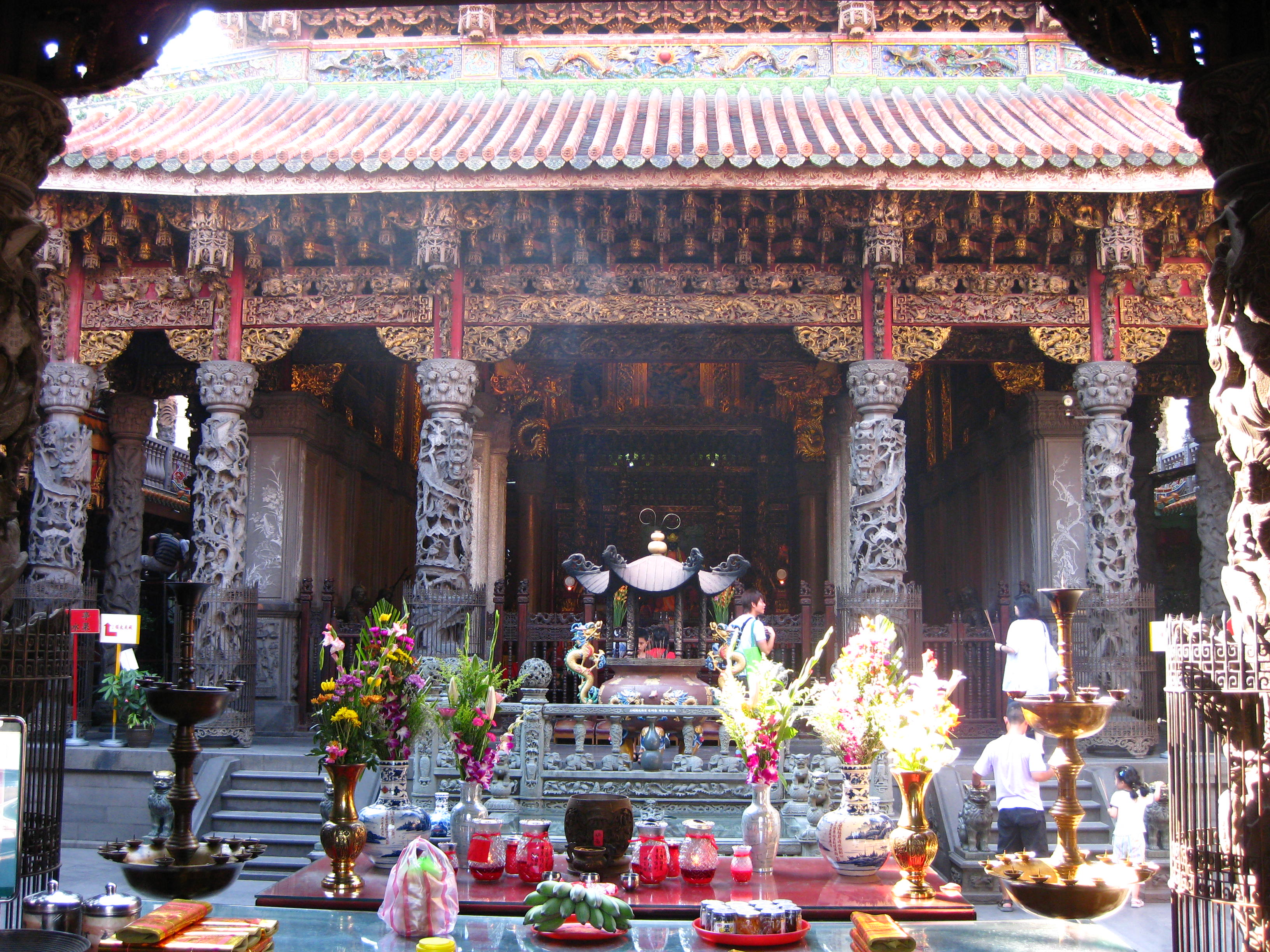 Zushih Temple, Sansia, Taiwan